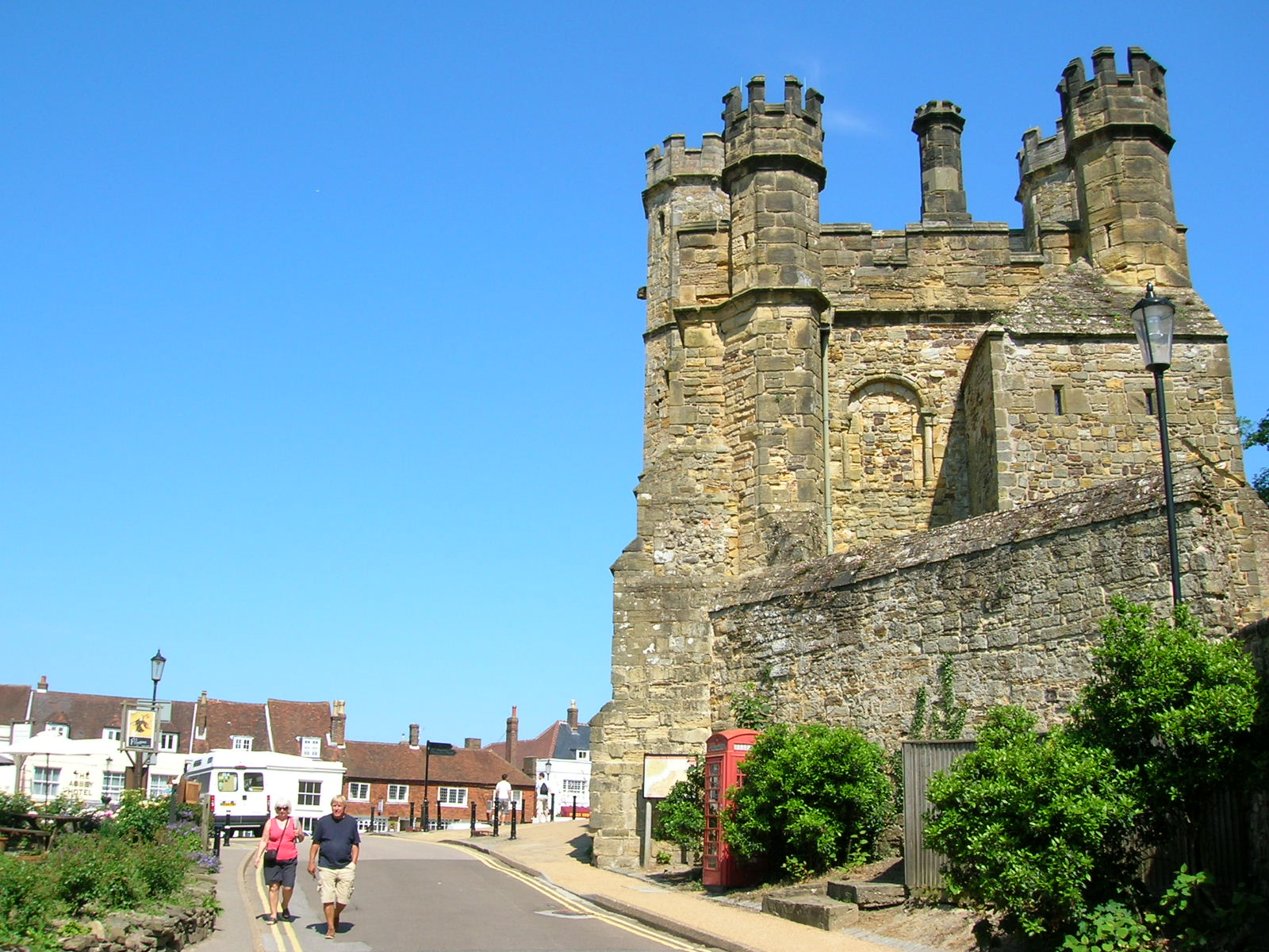 Battle Abbey, gatehouse